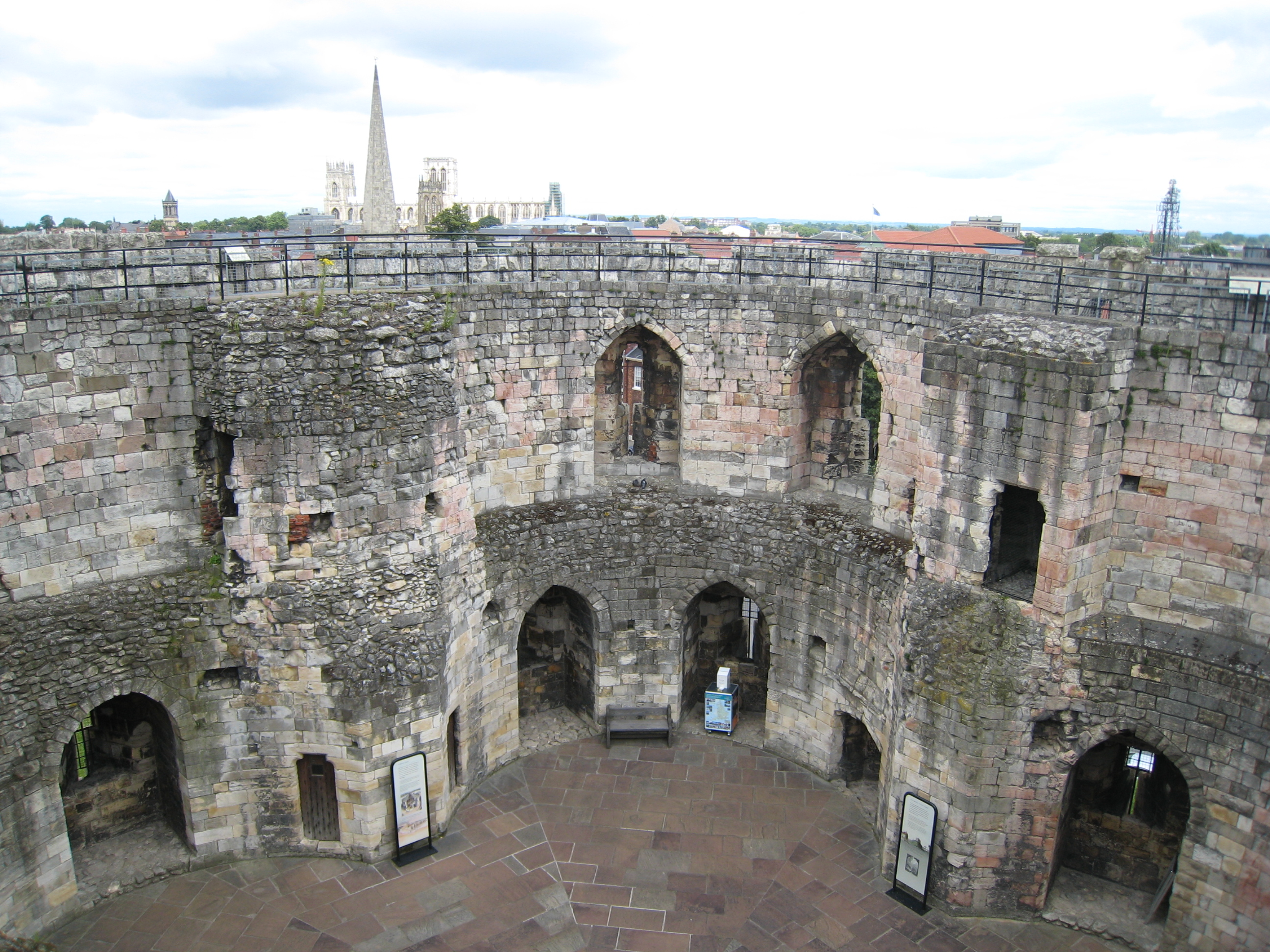 A view of the interior of Clifford's Tower, York with York Minster in the background